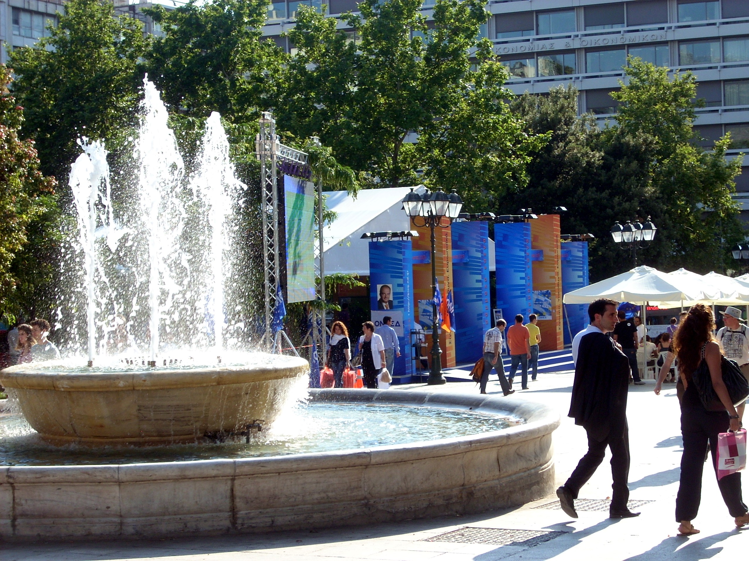 Political campaign of partie New Democracy before the European Parliament election in Greece in 2009 – partie meeting, Syntagma Square in Athens